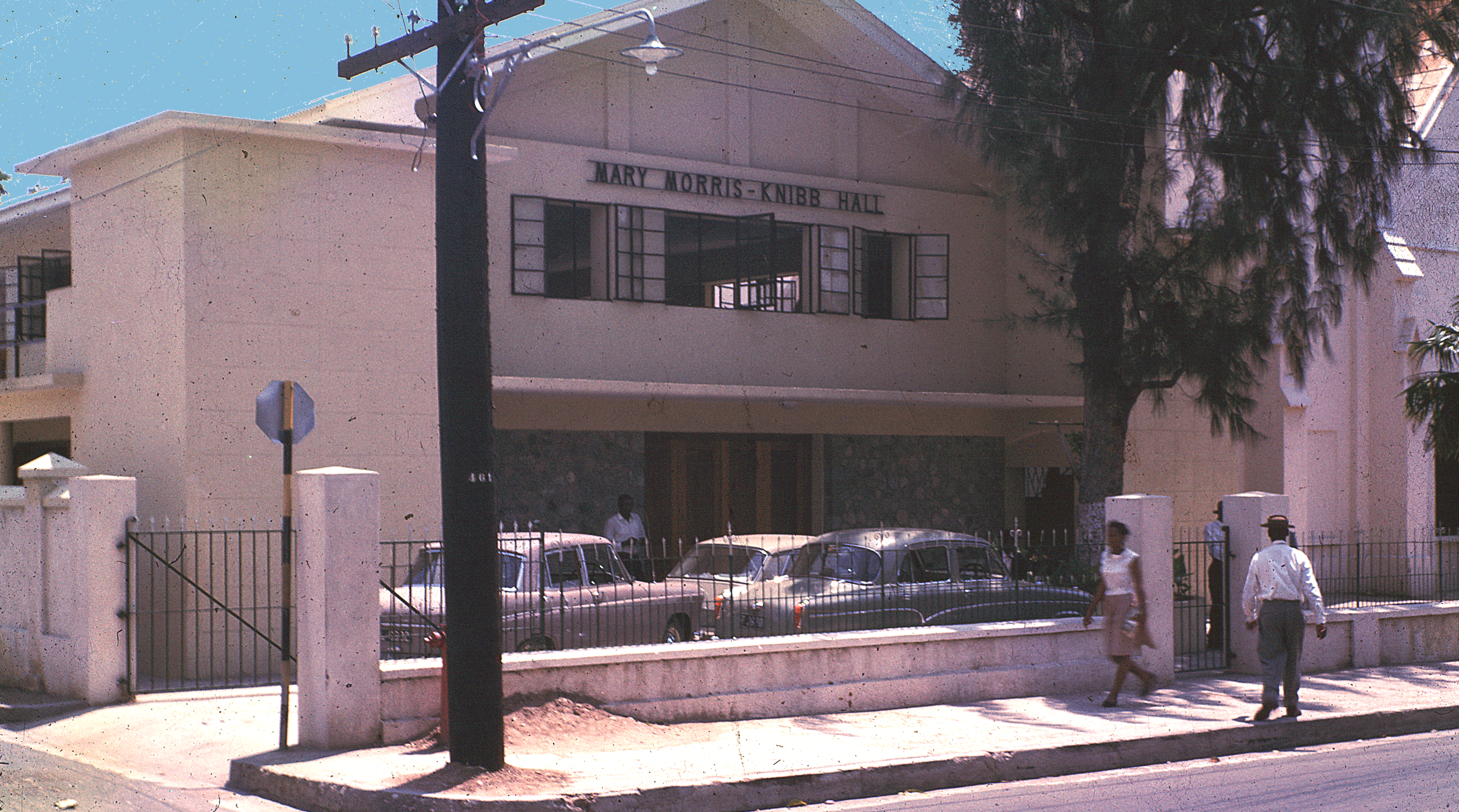 The hall of The Church of the Redeemer, Jamaica (Kingston Moravian church) named for its chief benefactor, Mary Morris-Knibb.